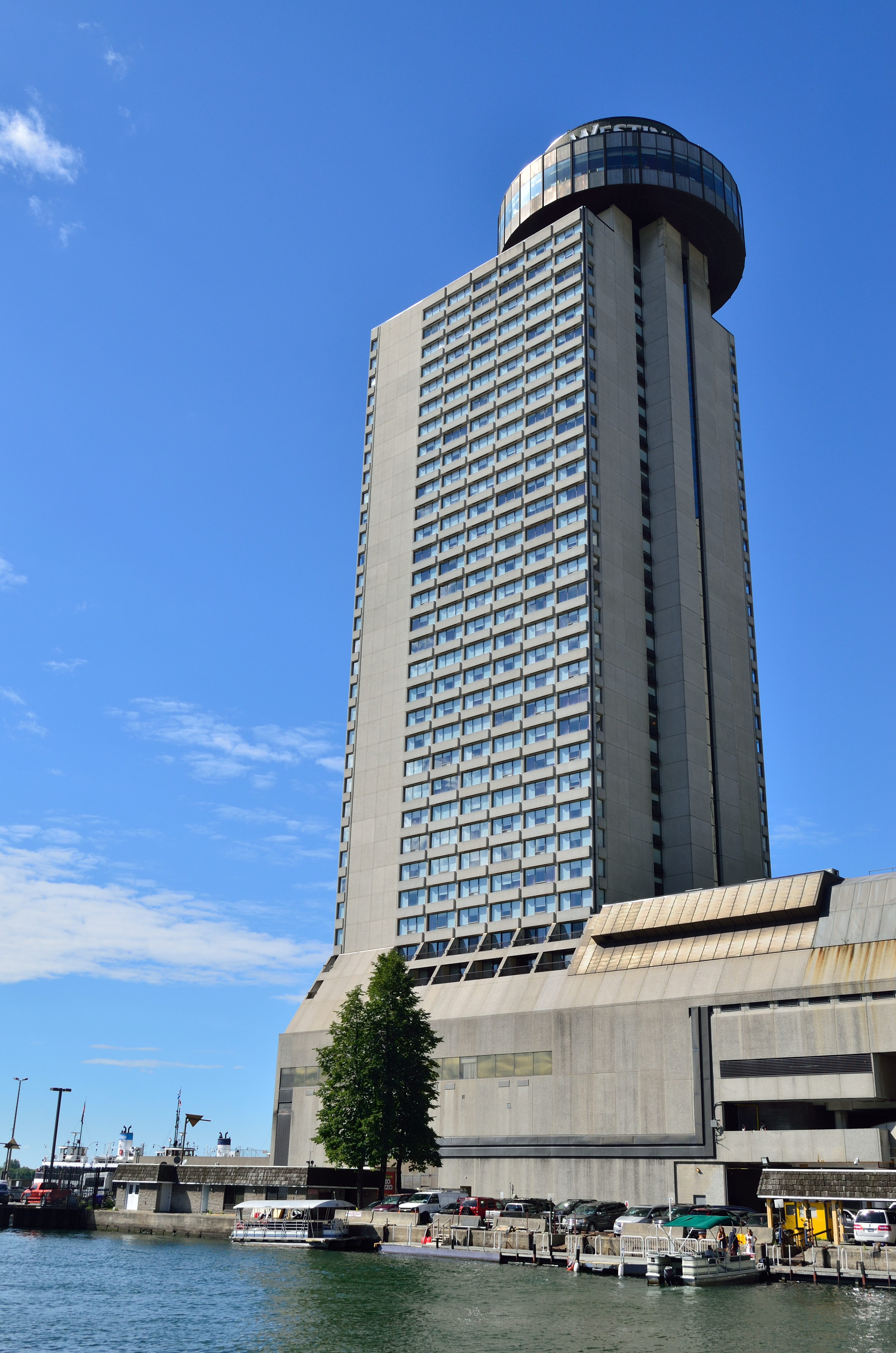 Westin Harbour Castle Hotel